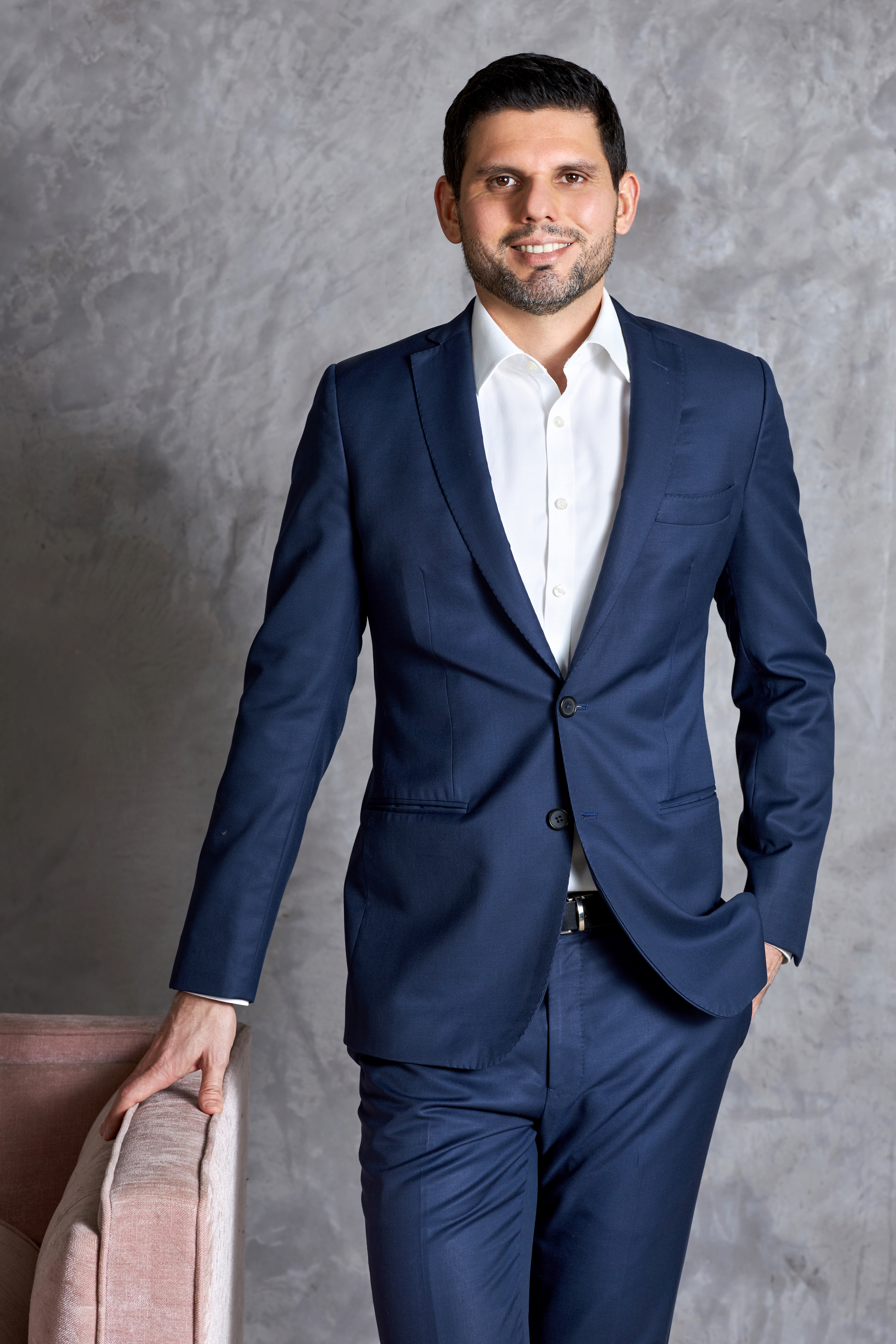 Mustafa Ghouse is a former professional tennis player and currently the Chief Executive Officer of JSW Sports.